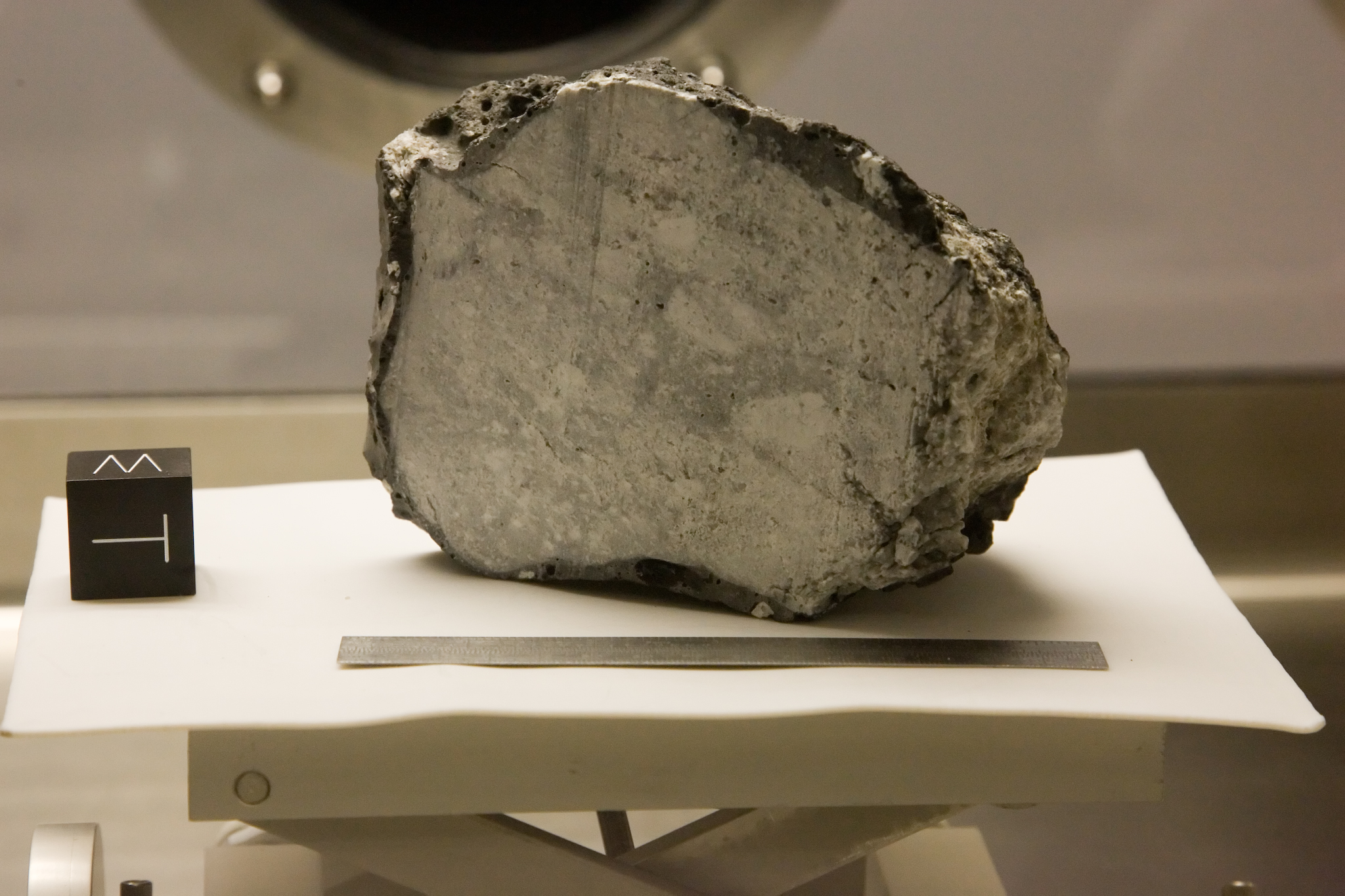 Samples from NASA's lunar surface collection at Johnson Space Center's vault in Houston, Texas.